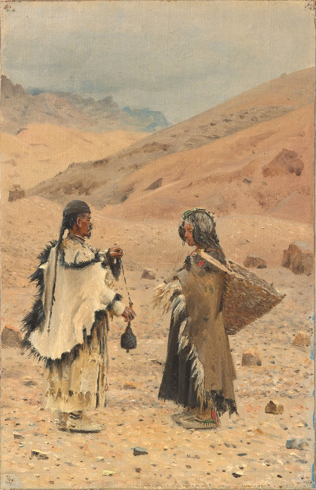 West Tibetans